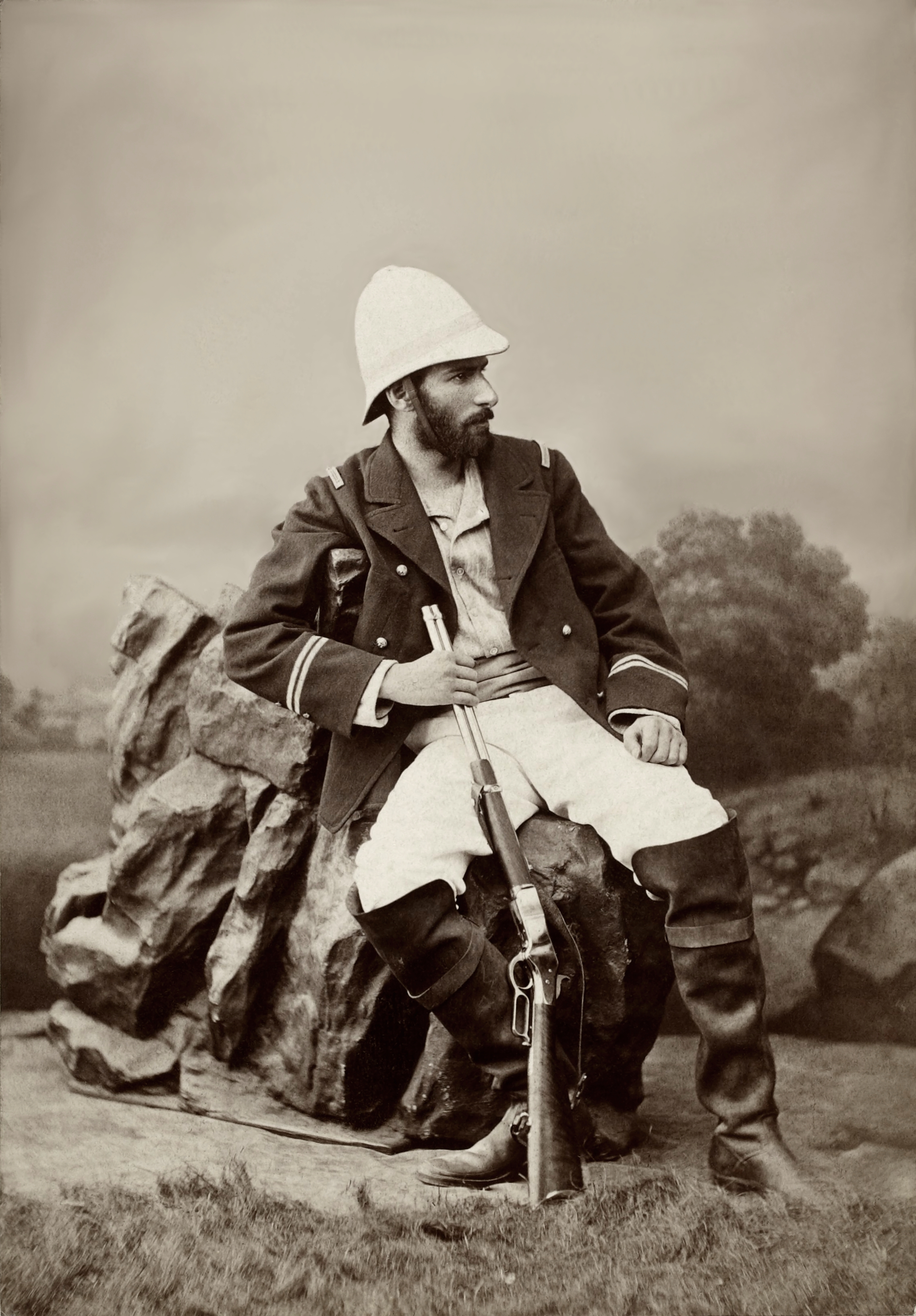 Pierre Savorgnan de Brazza (1852-1905), French navy officer, and explorer of Central Africa.